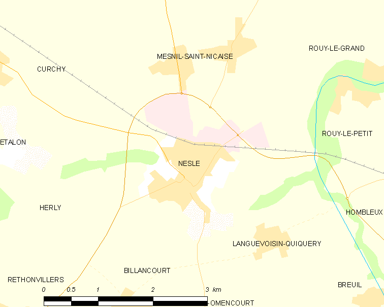 Map of French municipality Nesle